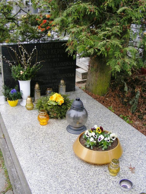 a grave of Antoni Kępiński